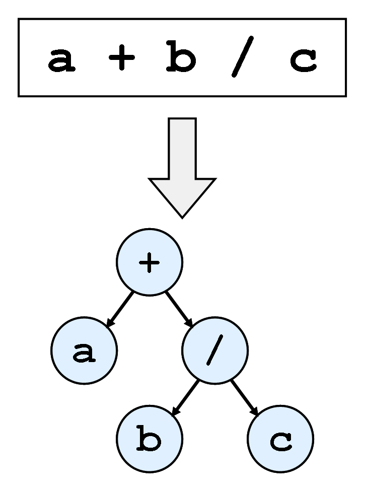 This is simple diagram that illustrates how information is transformed by a parser.